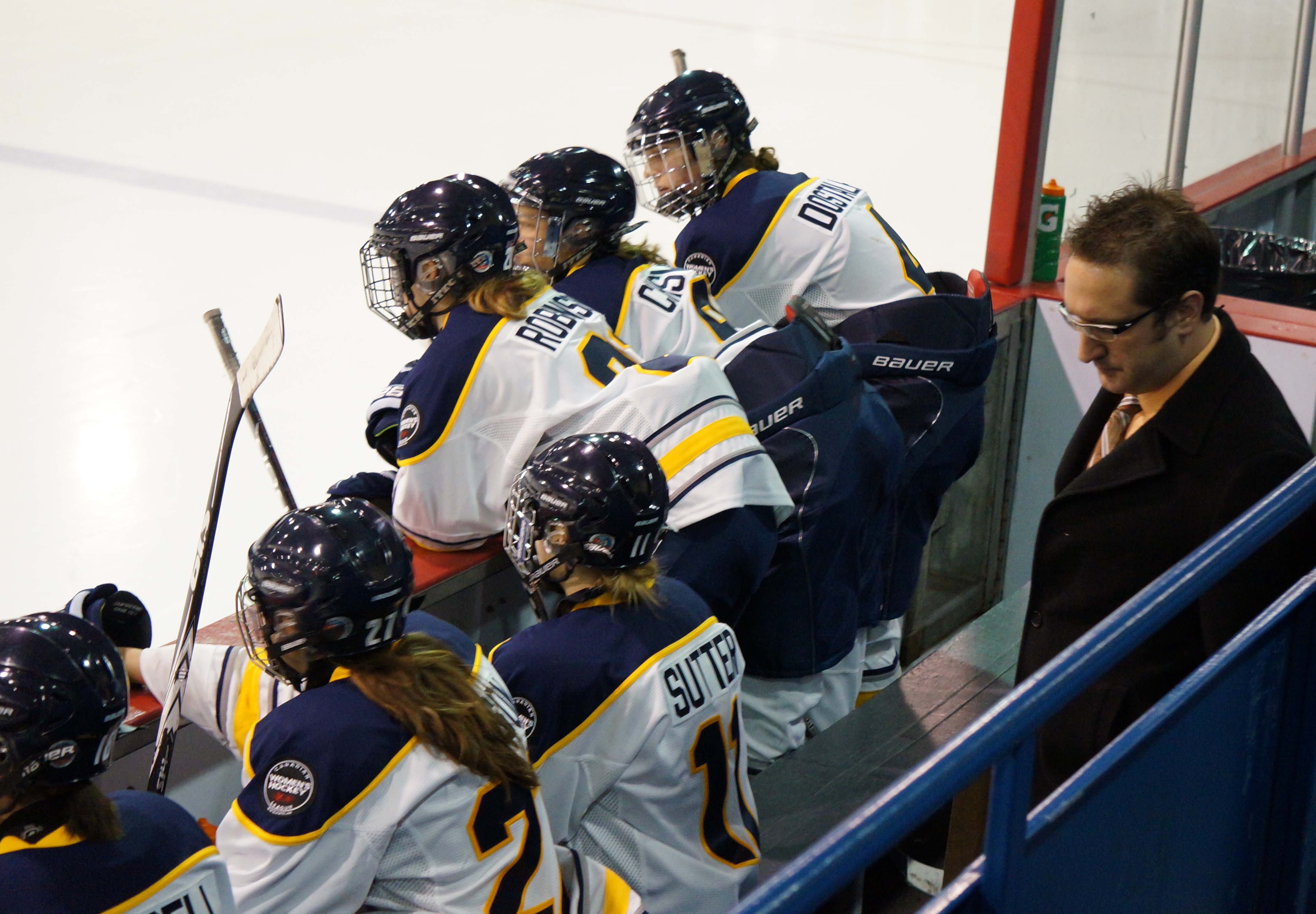 Team Alberta CWHL, women's ice hockey